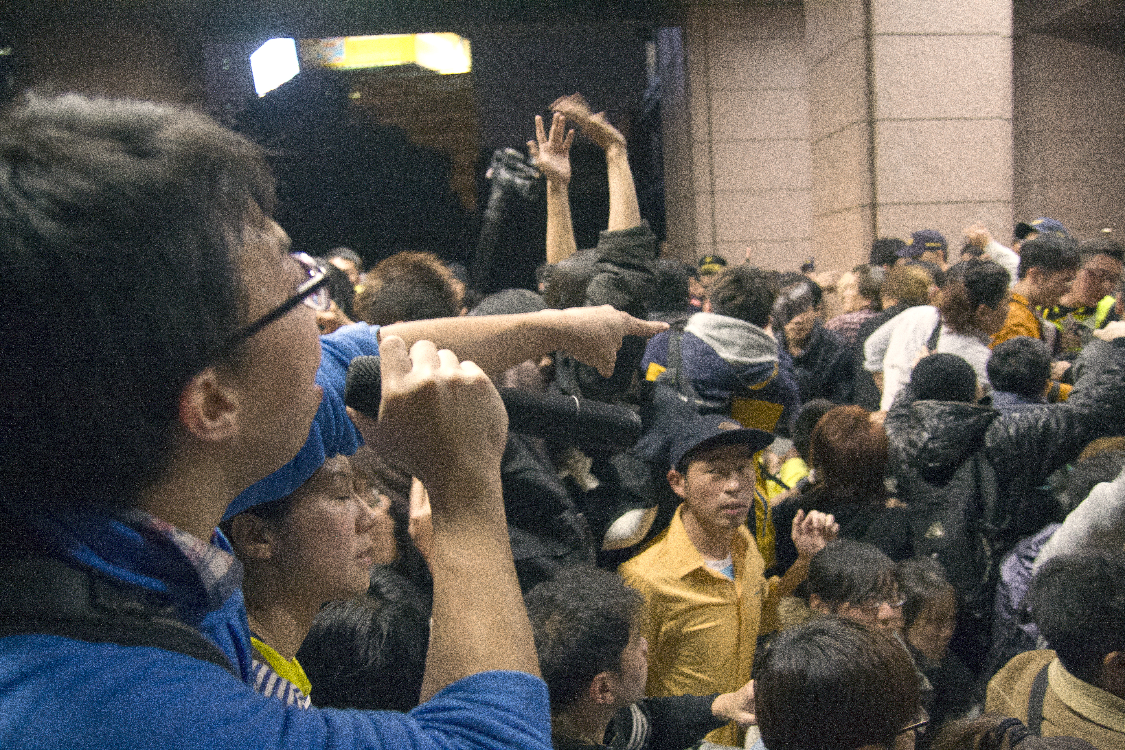 Dennis Wei (魏揚), one of the student leaders at the front line of the undertaking at the ROC Executive Yuan (行政院) shouts through a portable PA system, pleading for students to remain civil as they attempt to enter the front door amidst police resistance. The latest effort to occupy the Executive Yuan comes after both ROC Premier Jiang Yi-Hua (江宜樺) and ROC President Ma Ying-Jeou (馬英九) rebuffed students' demands to reverse the Cross-Strait Service Trade Agreement for reevaluation and oversight.